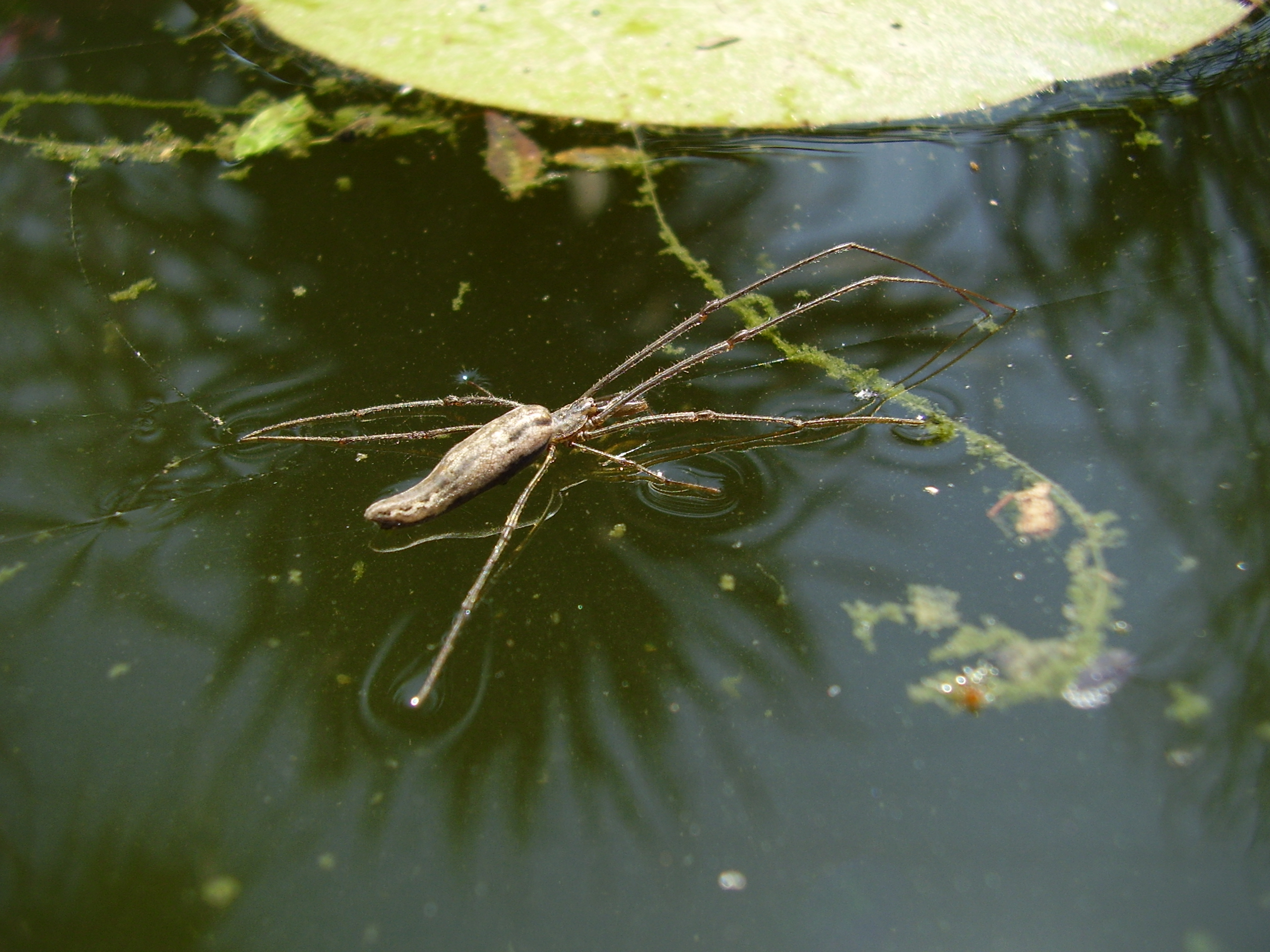 A long-jaw orbweaver spider, Tetragnatha laboriosa, dorsal view, in Karkur, Israel.